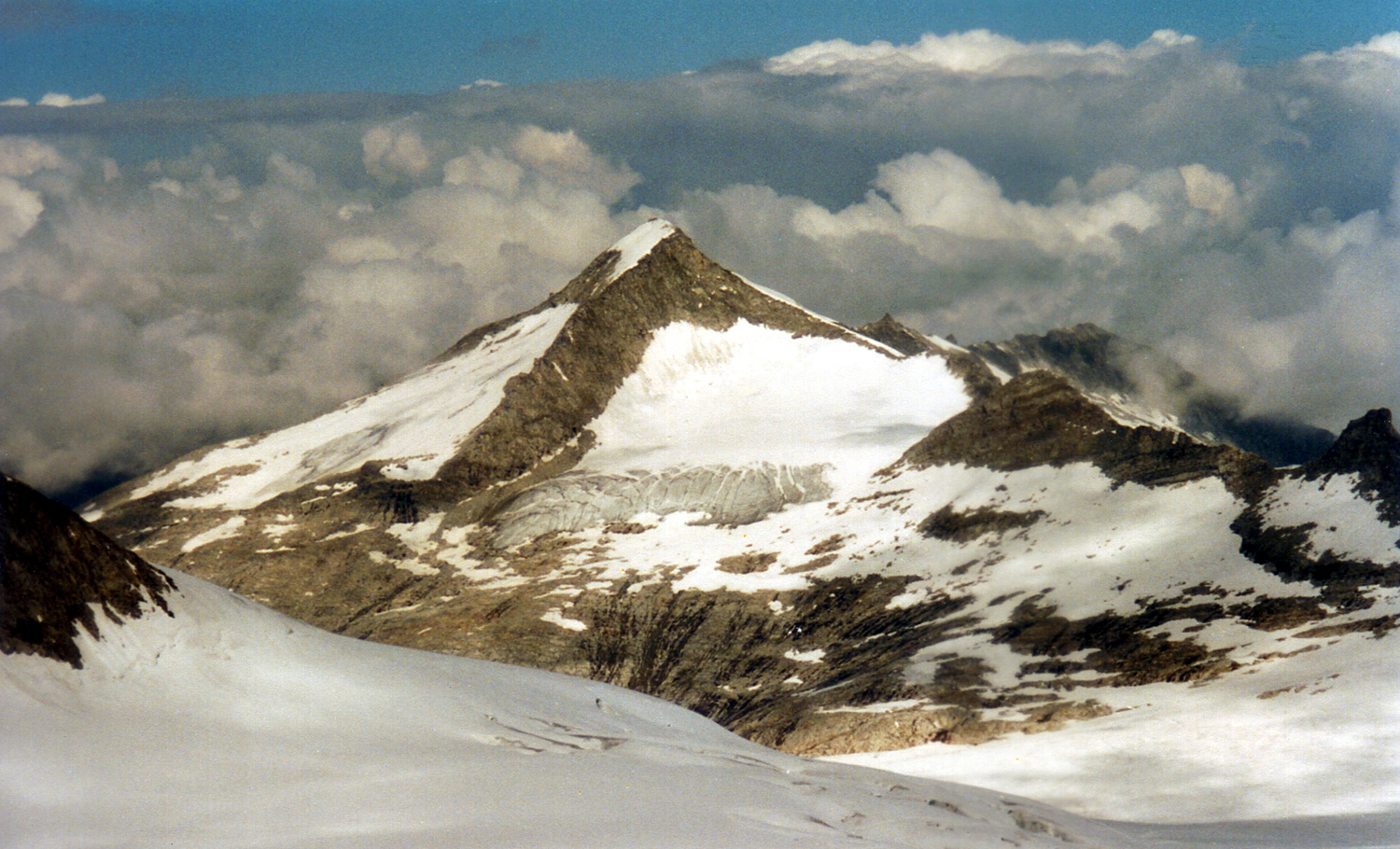 Keeskogel (3291 m) in Venedigergruppe as seen from SE, Salzburg, Austria